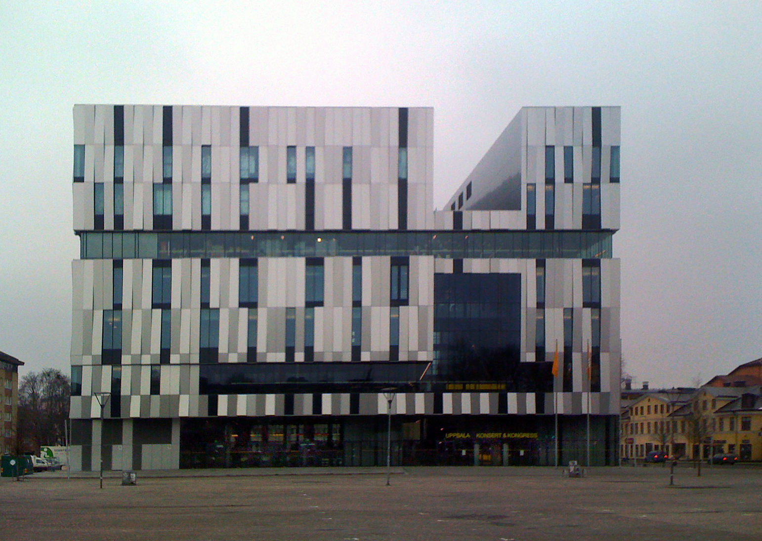 Uppsala konsert och Kongress - the music house in Uppsala, Sweden